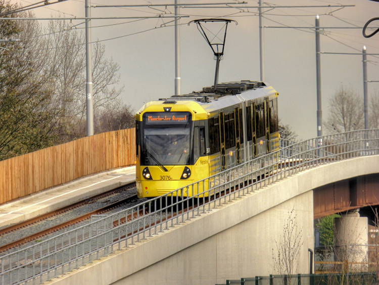 Tram Across the Mersey: To the north-east of the Sale Water Park stop, the tramway crosses the Mersey Valley flood plain and River Mersey on a low tram-only viaduct structure passing to the south of Jackson's Bridge and Jackson’s Boat public house.